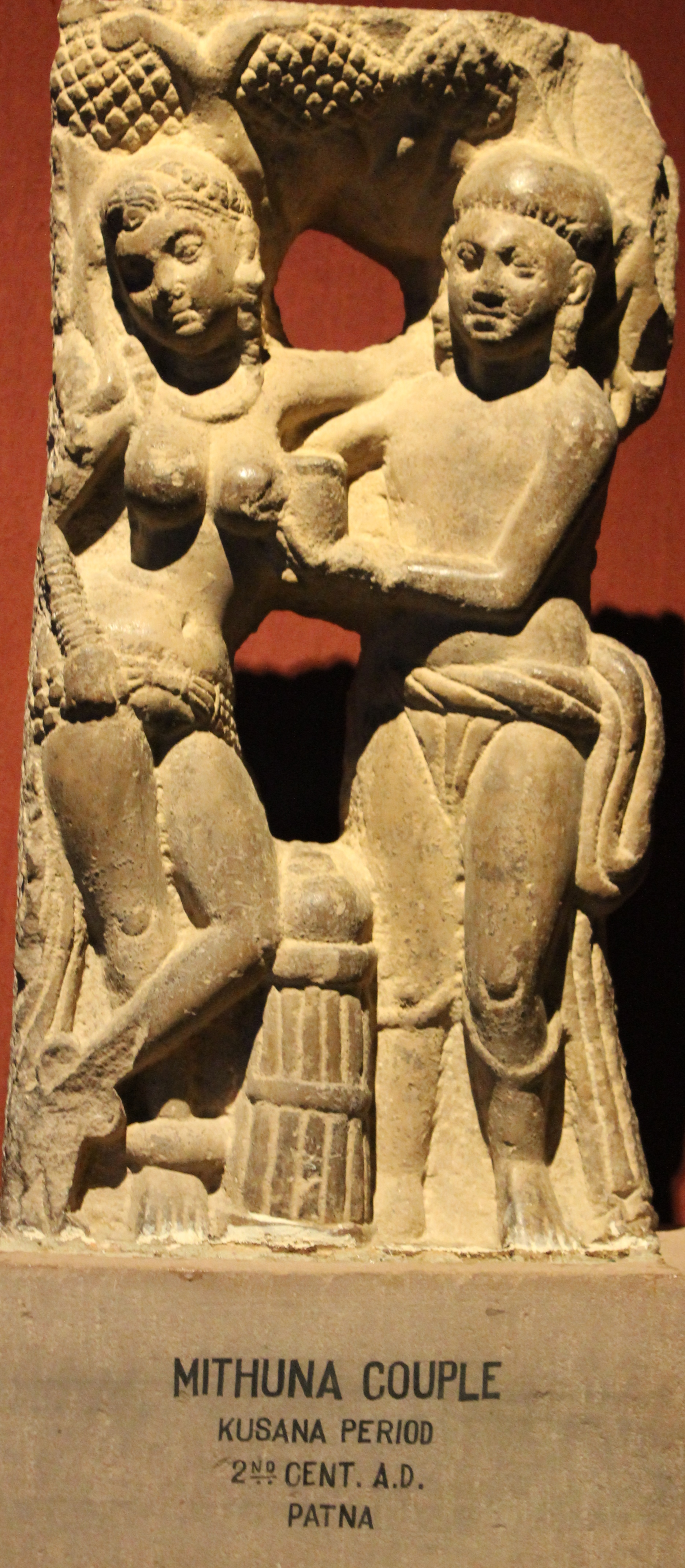 a sculpture of an intimate couple dating to the kushana period